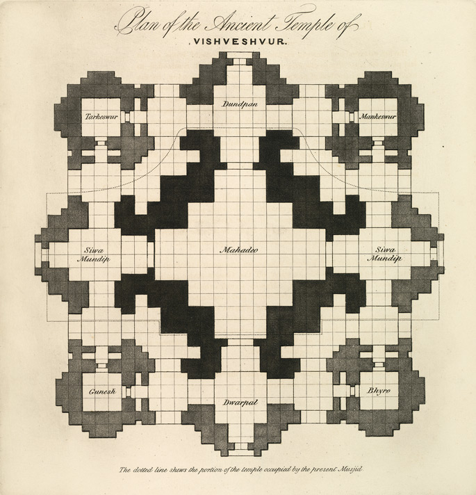 "Plan Of The Ancient Temple Of Vishveshvur," engraving, by the Anglo-Indian scholar, antiquarian and mint assay master James Prinsep. Dated 1832. Courtesy of the British Library, London.